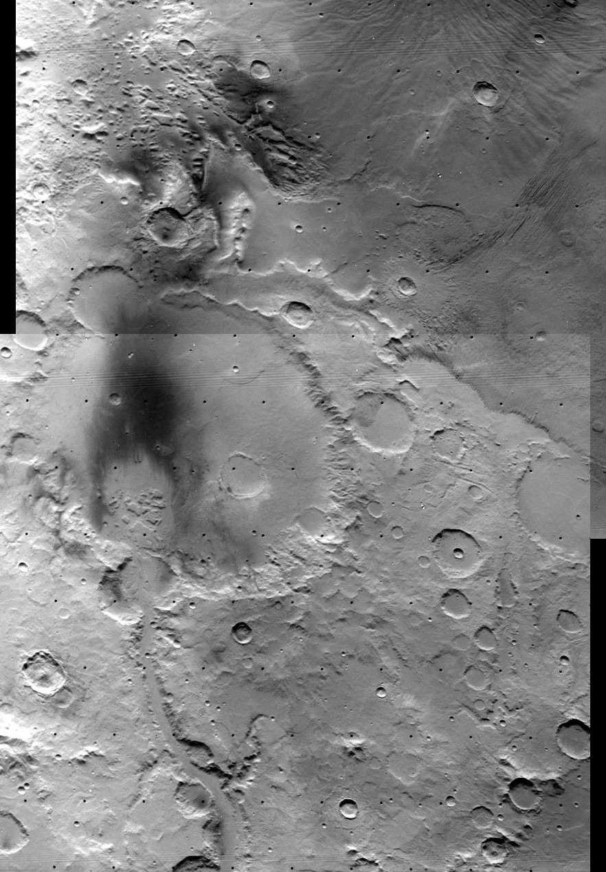 Gusev crater on Mars. Viking 1 images from camera B (372S52 and 372S54). Red filter was used for this image. Resolution is about 227 m/pixel. Approximate north is in upper right. Statistics for bottom image are below: Emission Angle: 32.5 Incidence Angle: 54.8 Latitude: -14.8 Longitude: 176.8 Phase Angle: 81.1